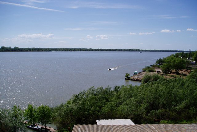 Danube River near Vilkovo, Ukraine.